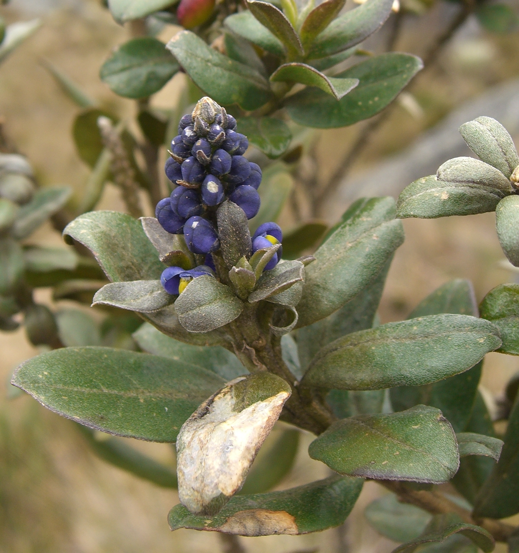 Please report references to .